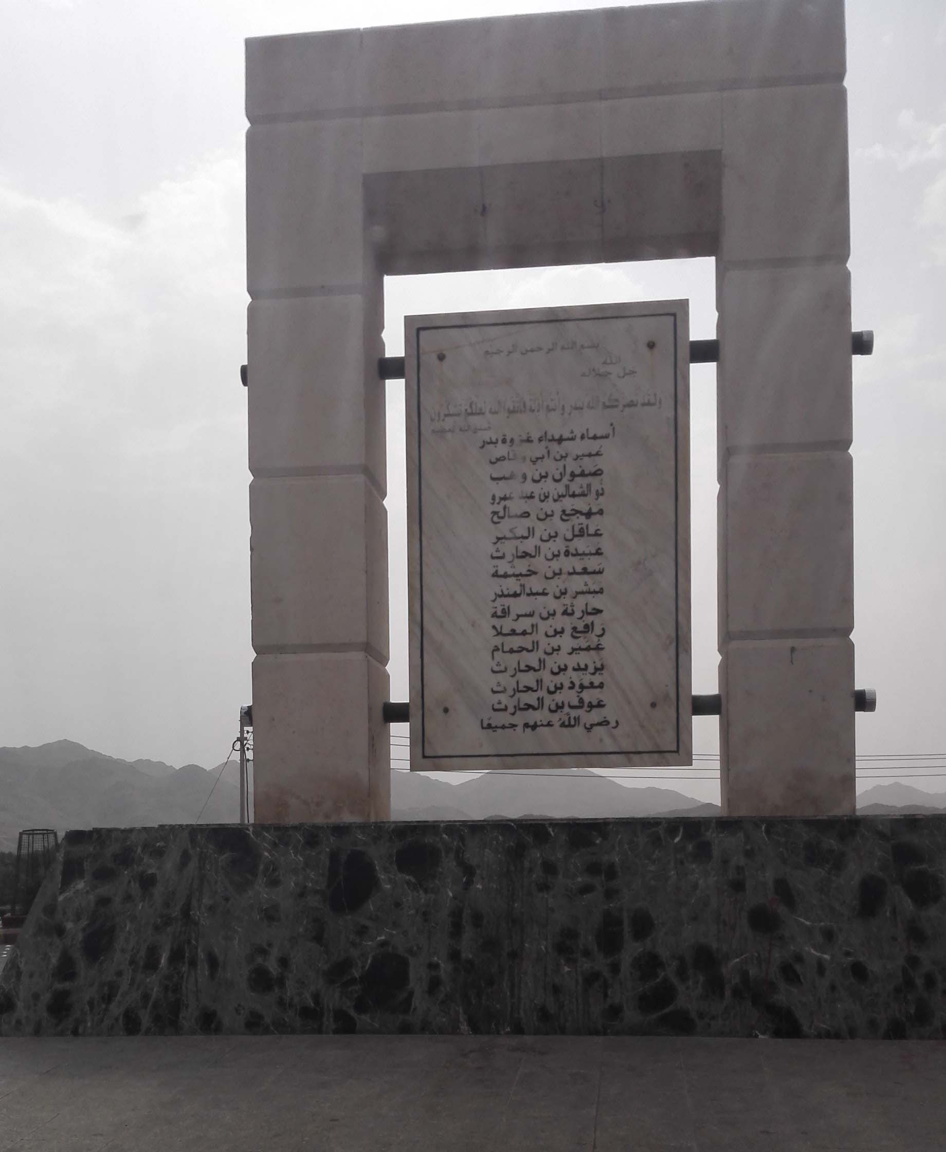 The names of 14 martyrs of Badr Al Kabir The Battle of Badr fought 2 Hijra 13th March 624 AD at the wells of Badr 70 miles from Madinah.